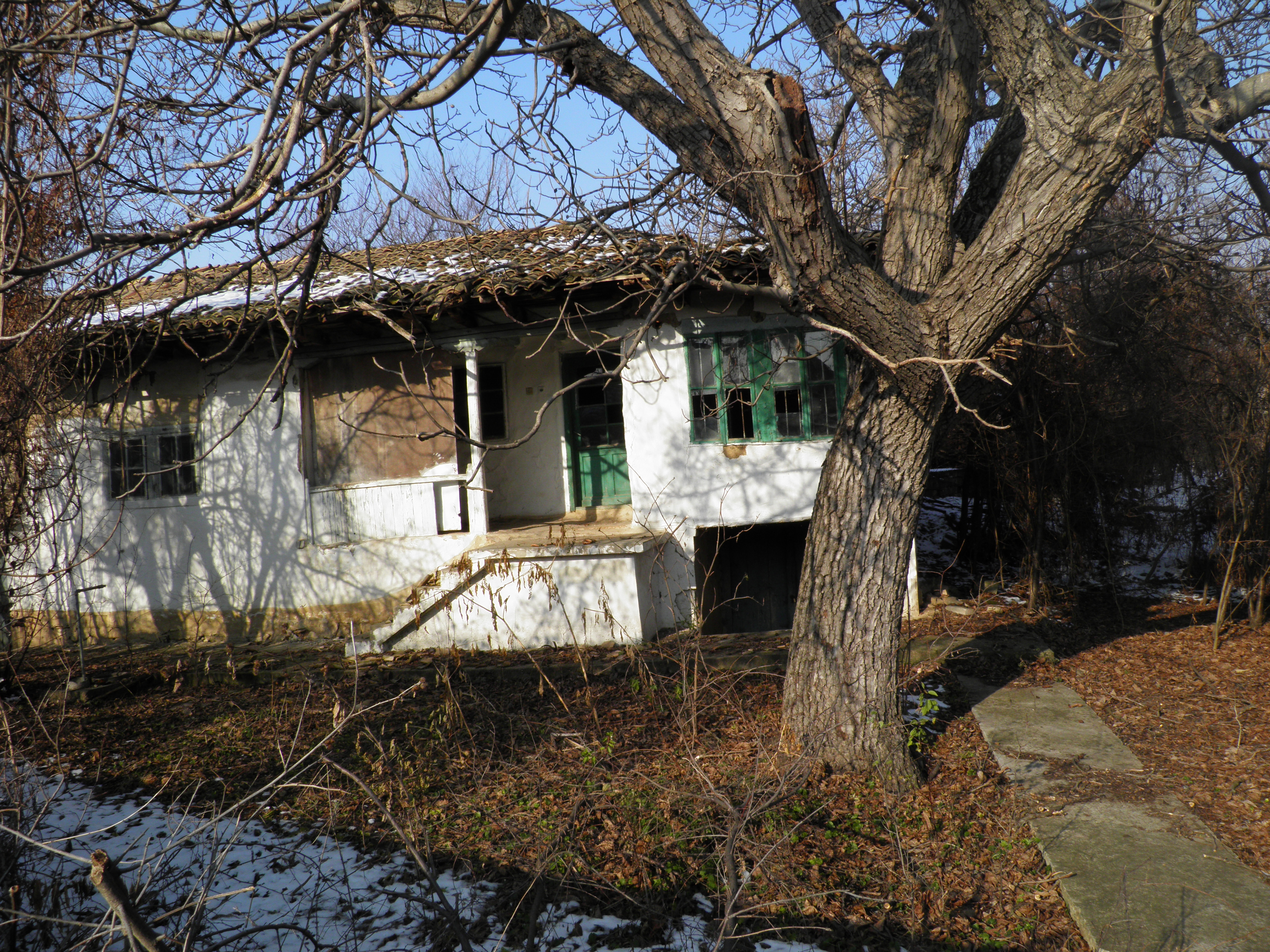 Bulgarian village house in Polski Senovets